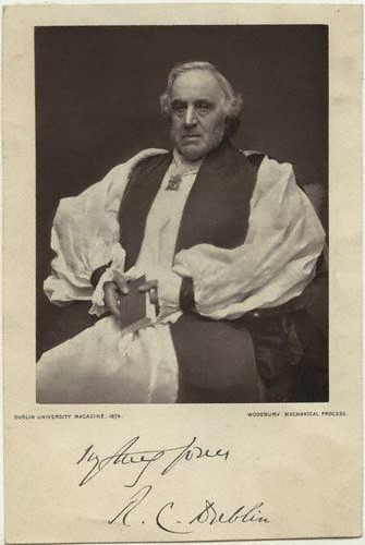 Richard Chenevix Trench (1807-1886)